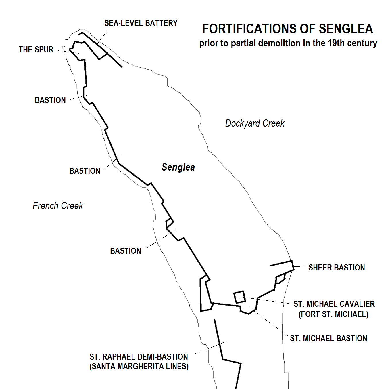 Map of the fortifications of Senglea, Malta prior to the late 19th century